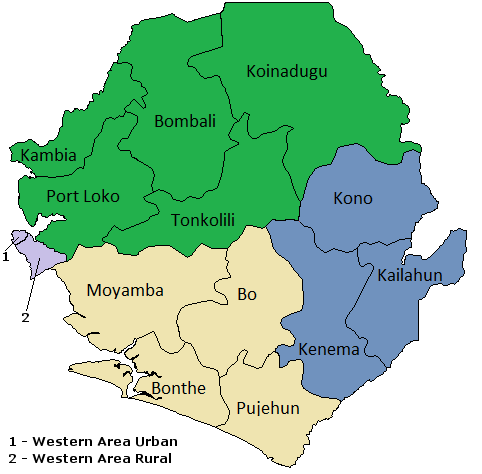 Sierra Leone's territory divided per provinces (color-coded) showing all the districts inside (with their name)